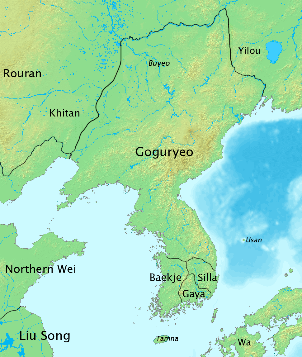 The map of history of Korea in 476, the moment of greatest territorial expansion of Goguryeo.